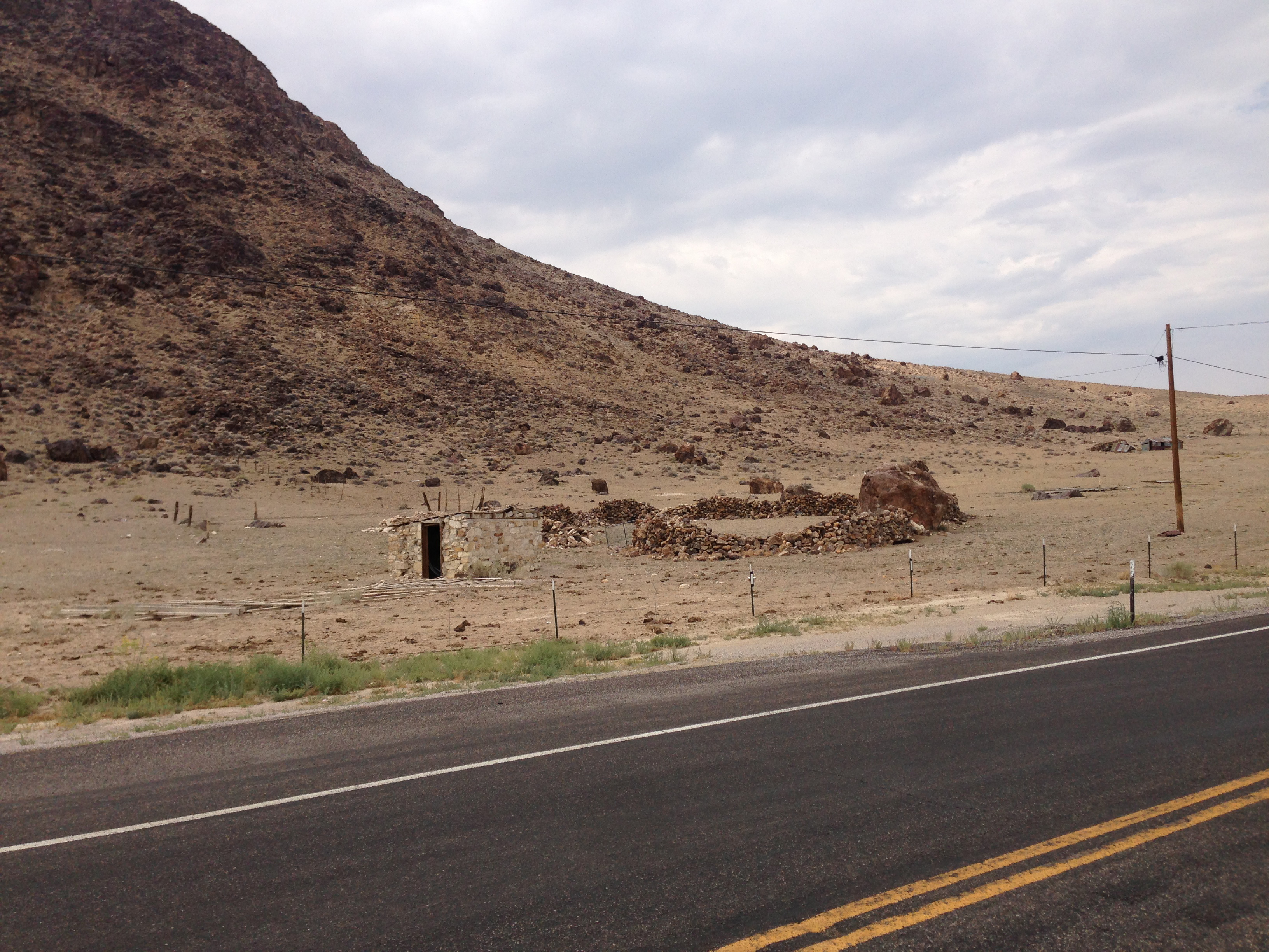 Ruins along U.S. Route 6 in Warm Springs, Nevada